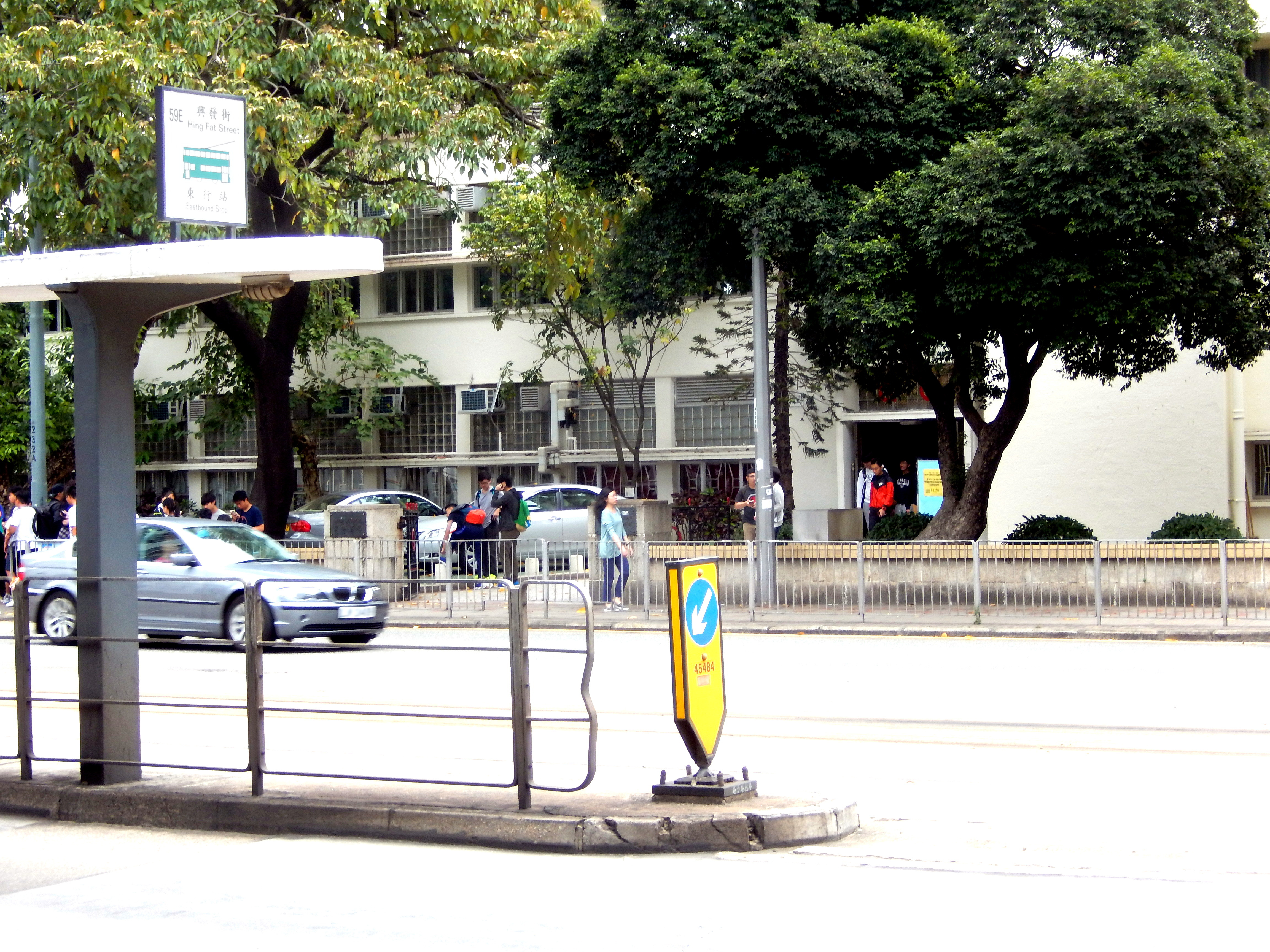 Candidates leaving the exam centre at Queen's College on their own after the HKDSE English Language Paper 3 Listening and Integrated Skills examination. No parents waiting outside. 中文（香港）: 在zh:香港中學文憑試 英文科卷三聆聽及綜合能力考試結束後，考生自行離開皇仁書院考場。無家長在外等候。